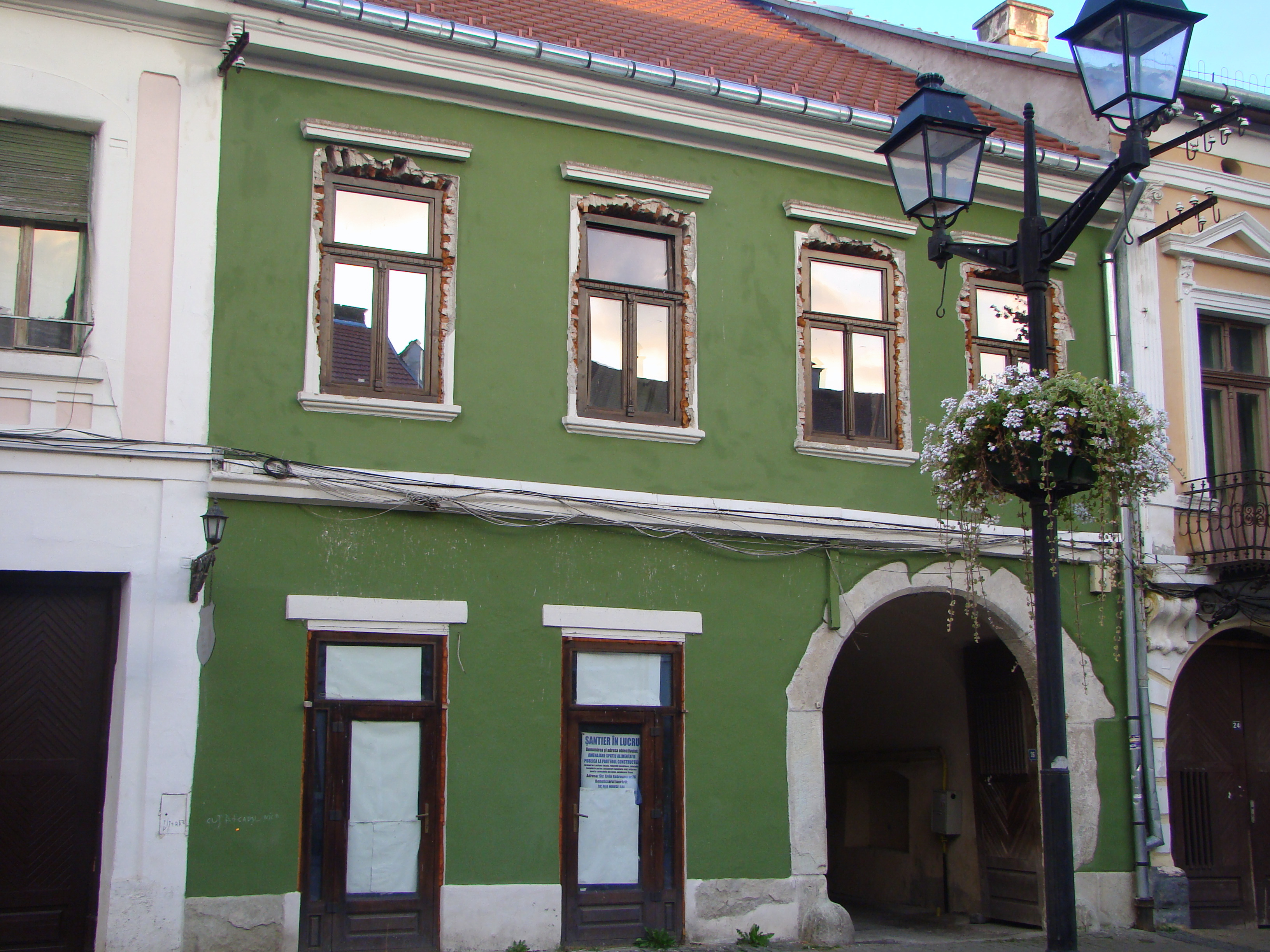 House, historic monument, in Bistrița, Liviu Rebreanu street 26